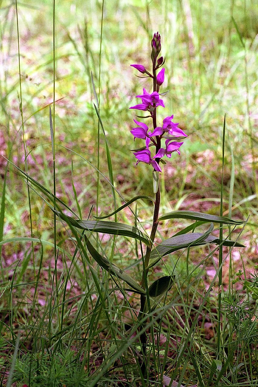 Cephalanthera rubra